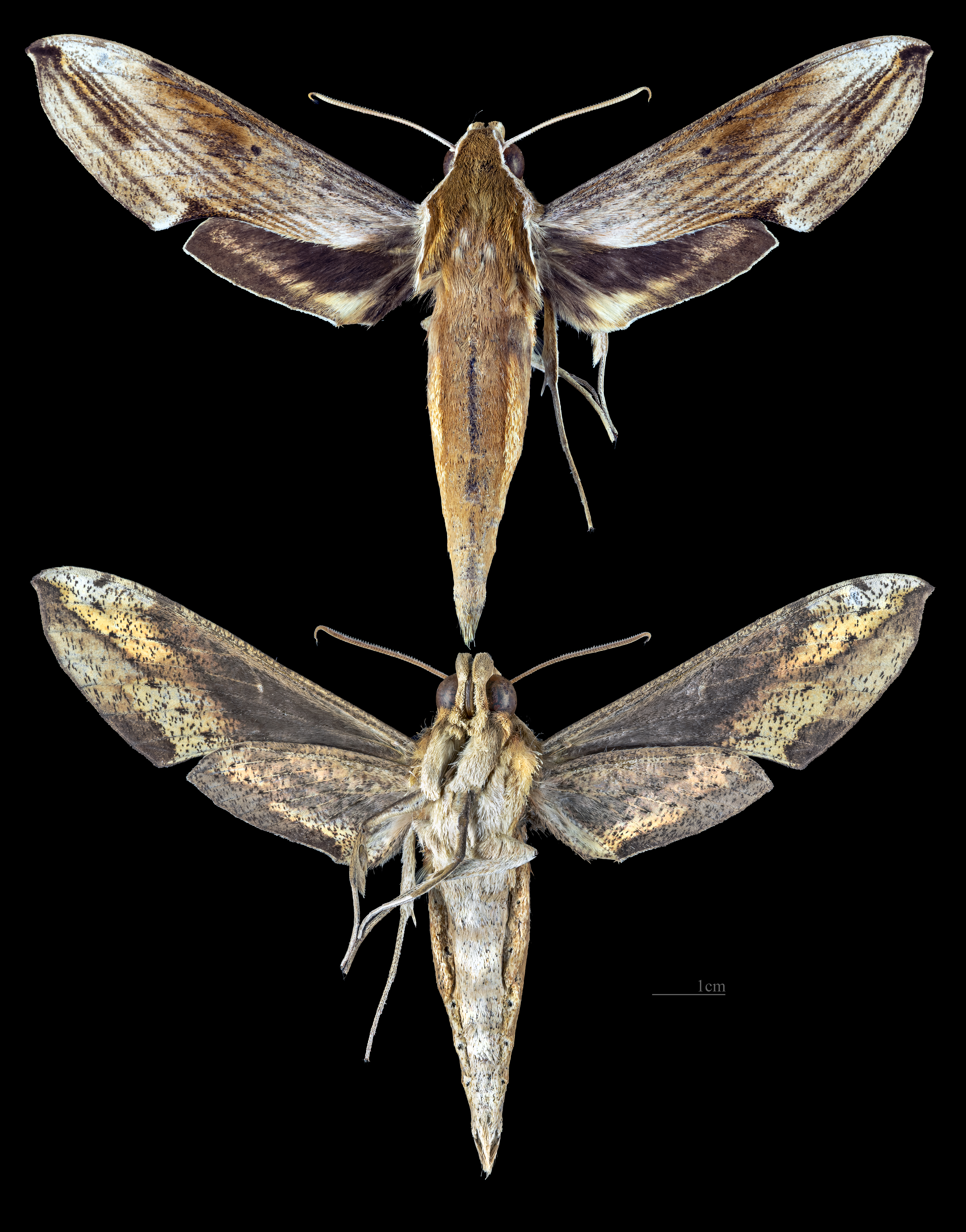 Xylophanes dolius - Two views of same specimen Collection of the Mathematician Laurent Schwartz